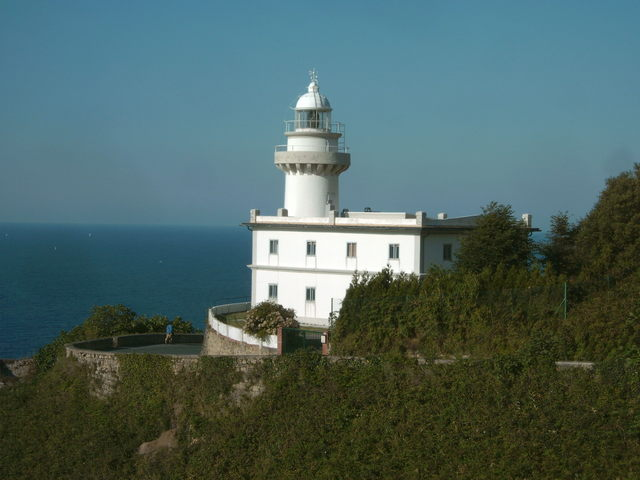 Igeldo lighthouse, in San Sebastian